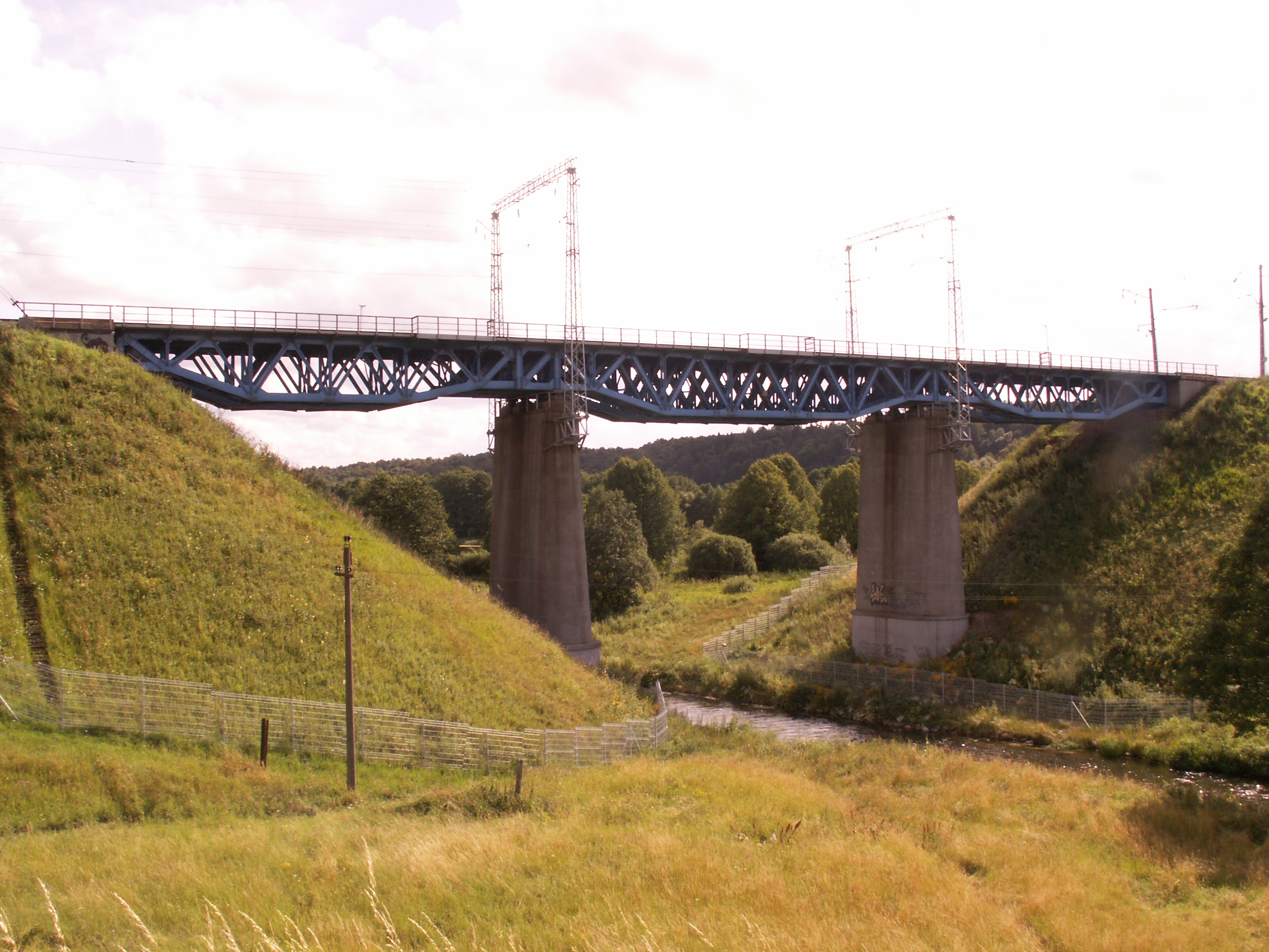 Baltoji Vokė railway bridge